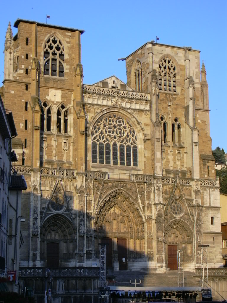 Streets of Vienne